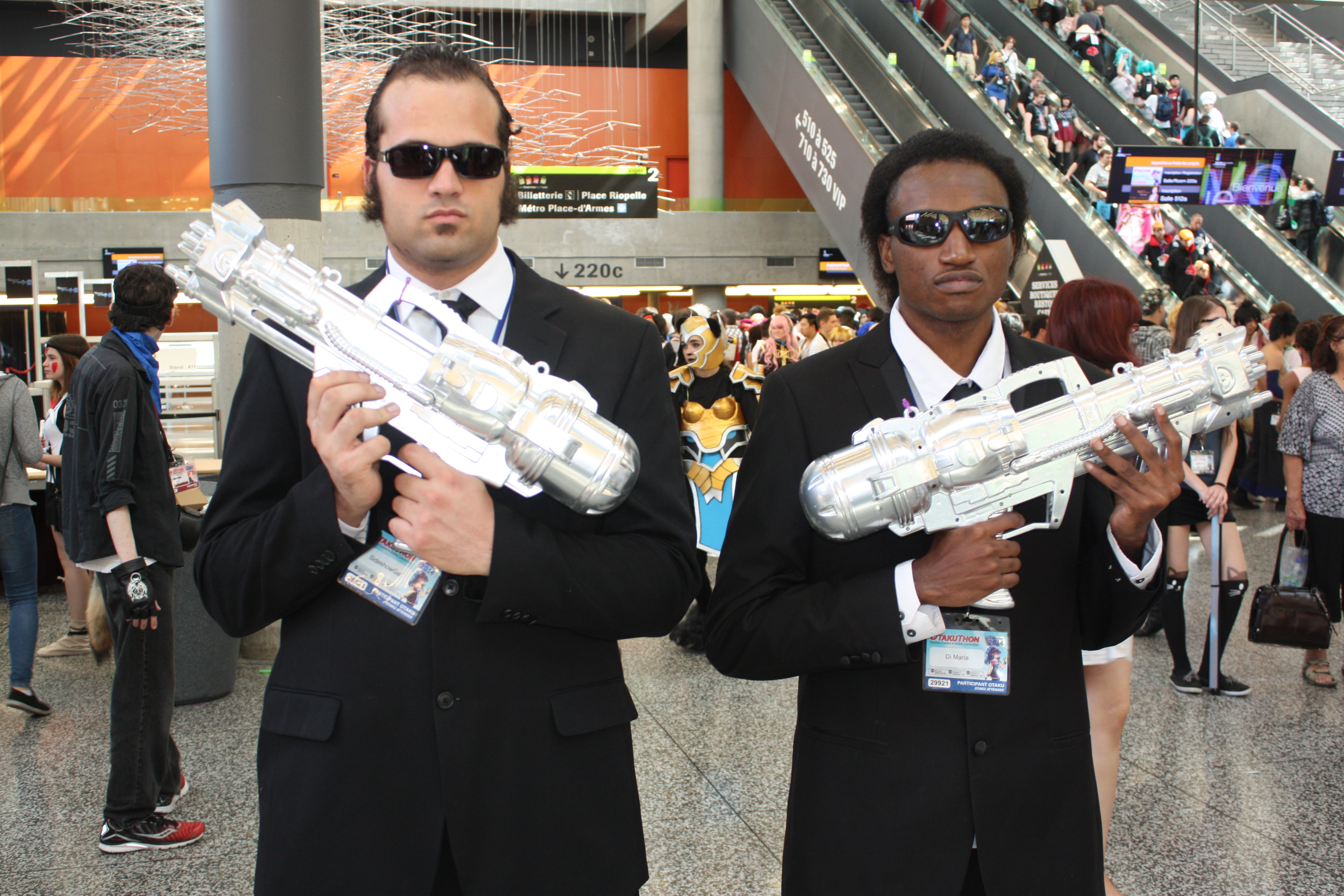 Otakuthon 2014: Men in Black